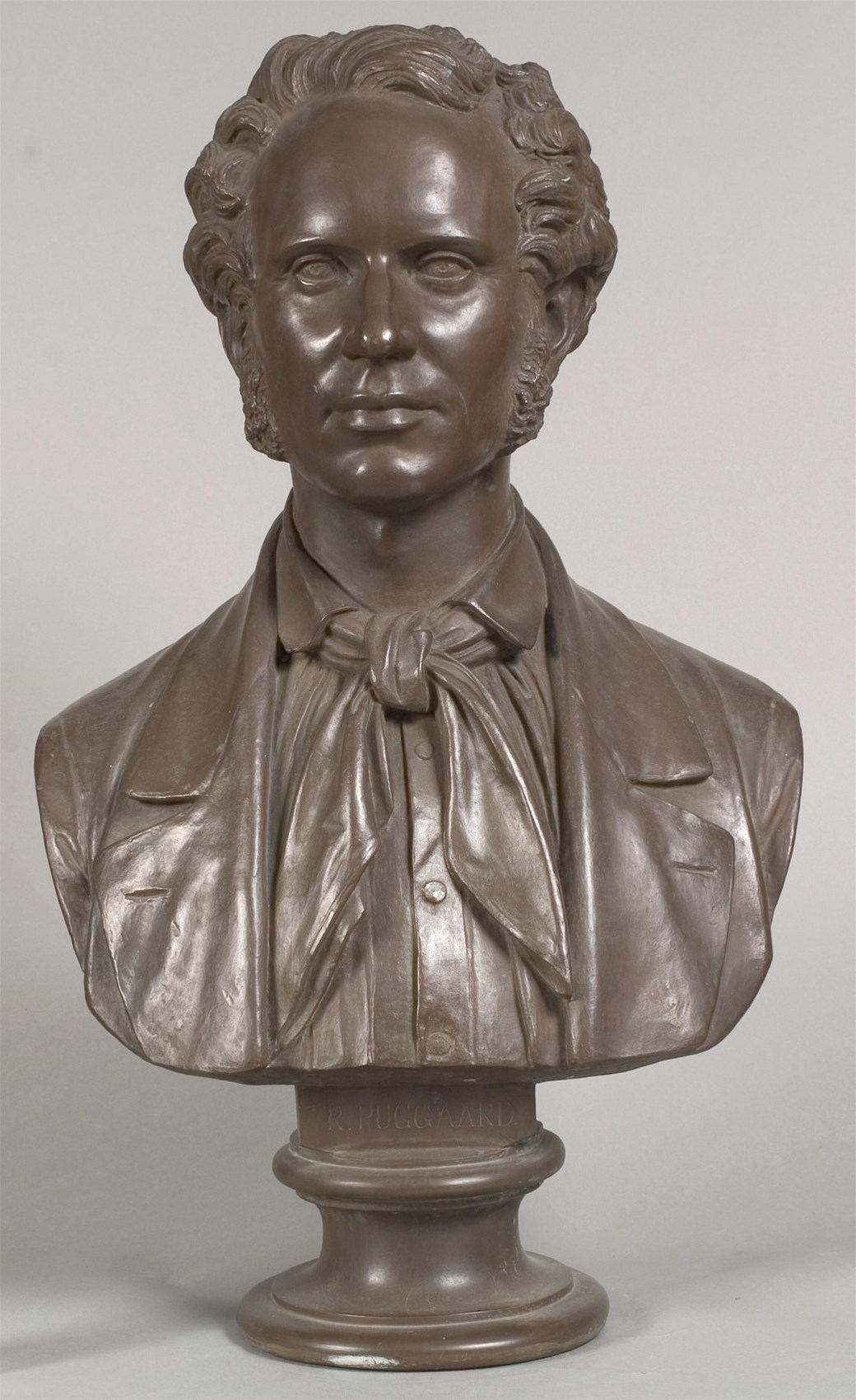 Christopher Rudolph Puggaard by Herman Wilhelm Bissen. Bronze cast from 1904. Unknown year of creation.